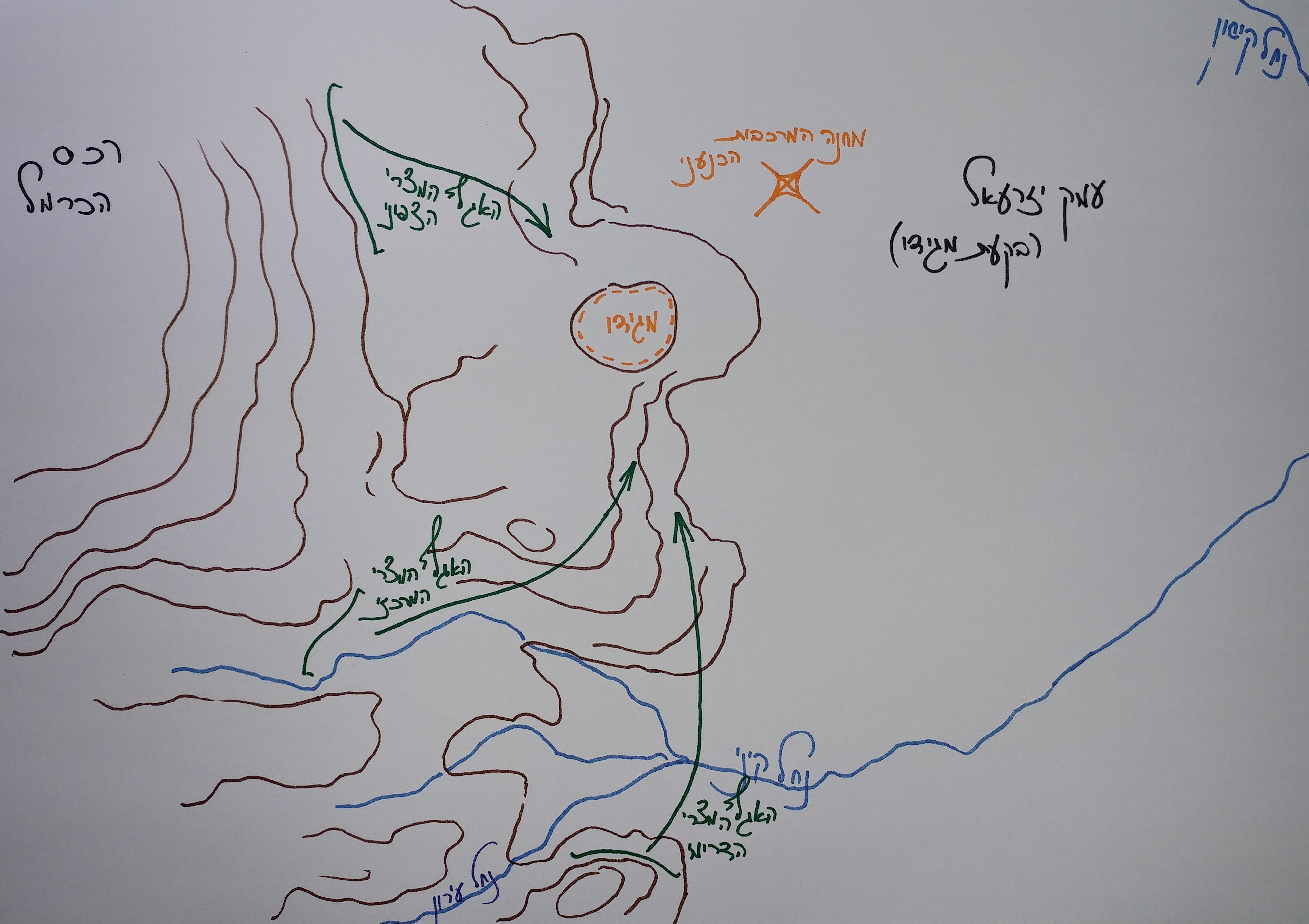 Thutmose's attack on Megiddo: 1. Southern wing - attacked from south of Kinna brook. 2. Central wing - was led by Thutmose himself. 3. Northern wing - attacked from north-west of Megiddo. Map source: Yohanan Aharoni, Carta's Atlas of the Bible. Carta, Jerusalem. 1964, p.33.